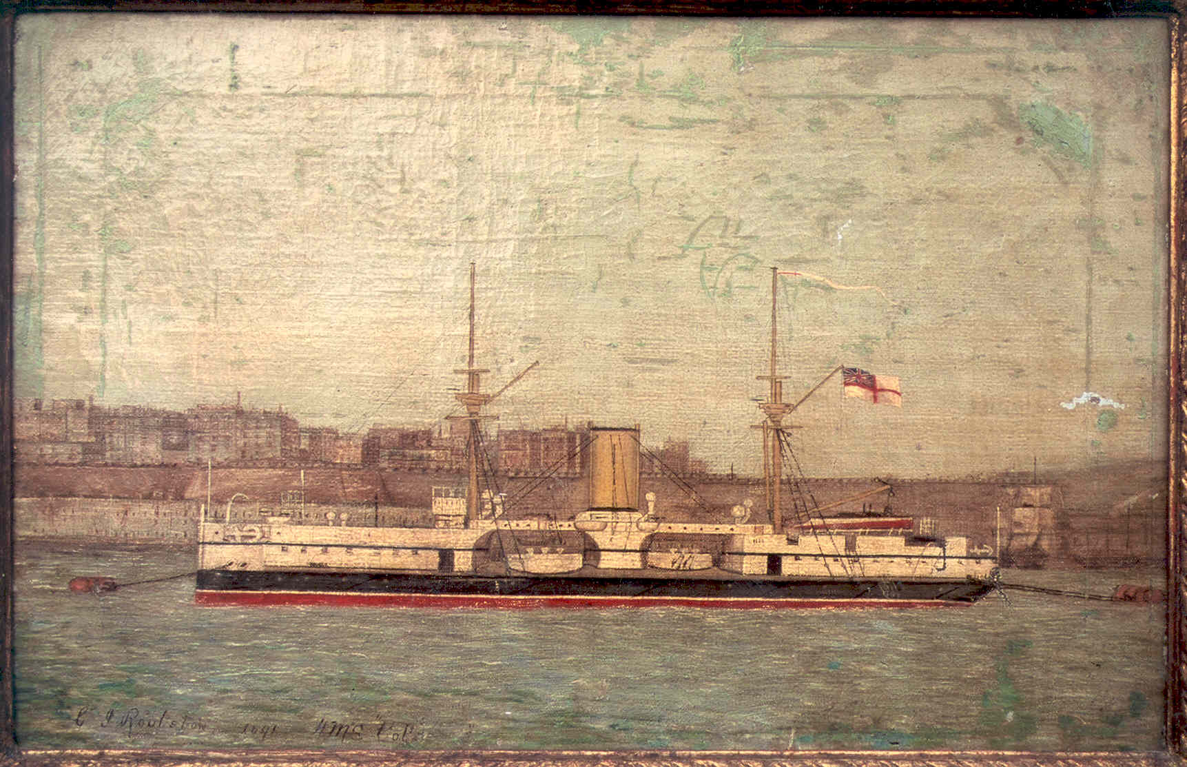 British battleship HMS Colossus (1882). Scan of photo of painting, oil-on-canvas, by C.J.Roulston dated 1891.